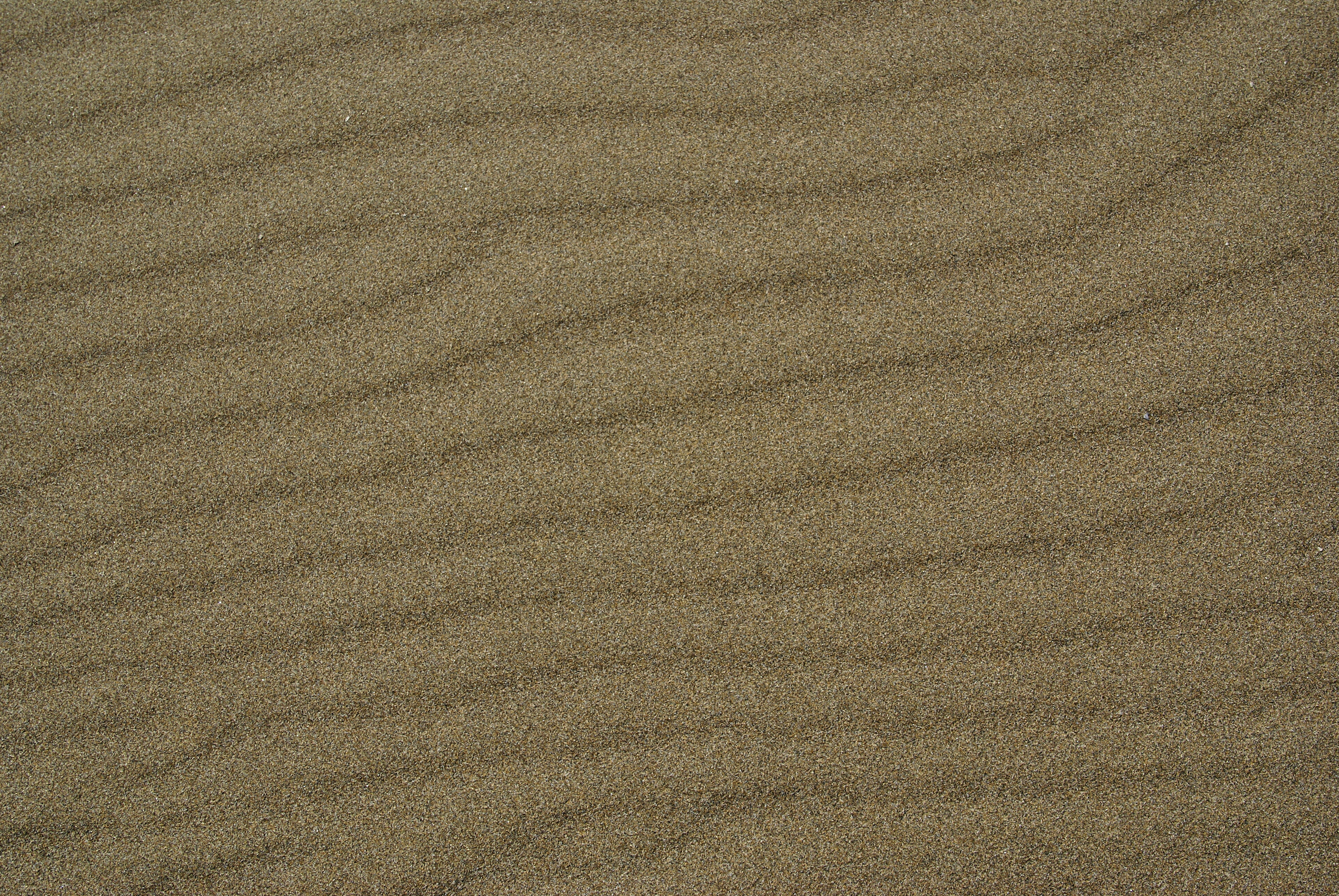 Ripple marks at the Ebro Delta, Spain